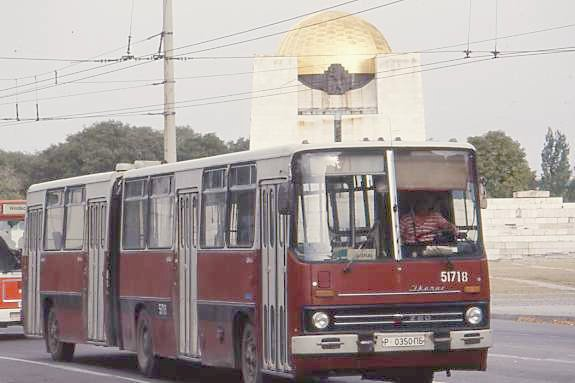 Ikarus 280.04 bus (#51718, reg. Р 0350 ПБ), built 1983, Еггед Русе from Ruse (Русе) operator. The pantheon is a memorial to many 19th century Bulgarian freedom fights who died for the cause 39 are buried inside it. In 1993 it was not open and there was no eternal flame burning. I guess history was being re-assessed at the time.... Vehicle Registration P (r) = cyrillic registration for Ruse. ALso called Roustchuk from the latinised Turkish. Some of these articulated Ikarus buses were bought from East Berlin (Ost) BVB in the early 1990s but 51718 was delivered new to Bulgaria in the special Bulgarian Ikarus livery. (see comments below by @balkananton. The numbering system defeats me. &&&&&&&&search here for buses &&&&&&&&&&&&&&& A FLEET LIST for Ruse Trolleybuses may be found here, where 54 seems to indicate a trolleybus , the 3rd and 4th digits the fleet number and the fifth a check number. 51060 was the last (ex-East Berlin) articulated bus in Ruse.